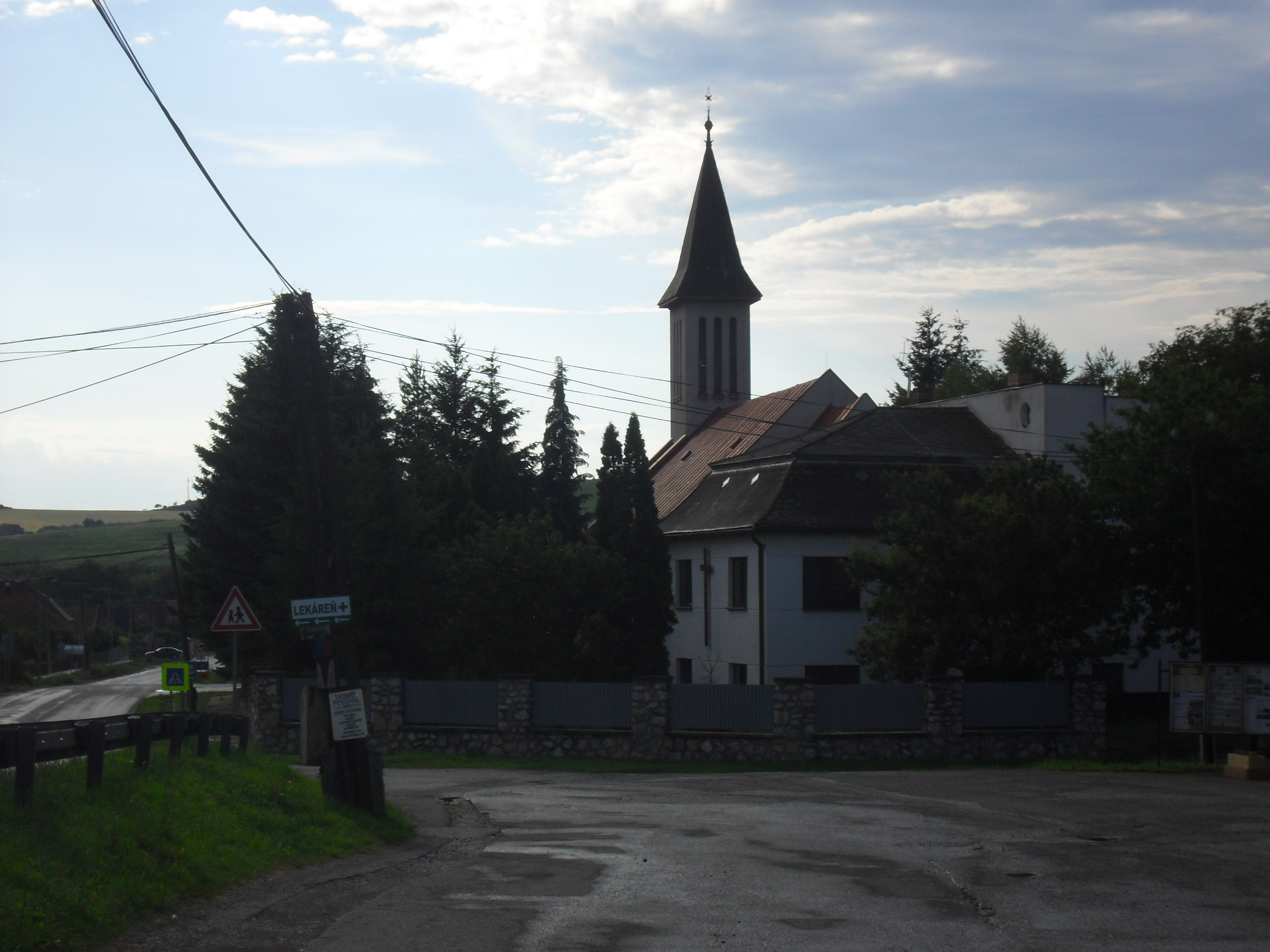 Bohdanovce - street view